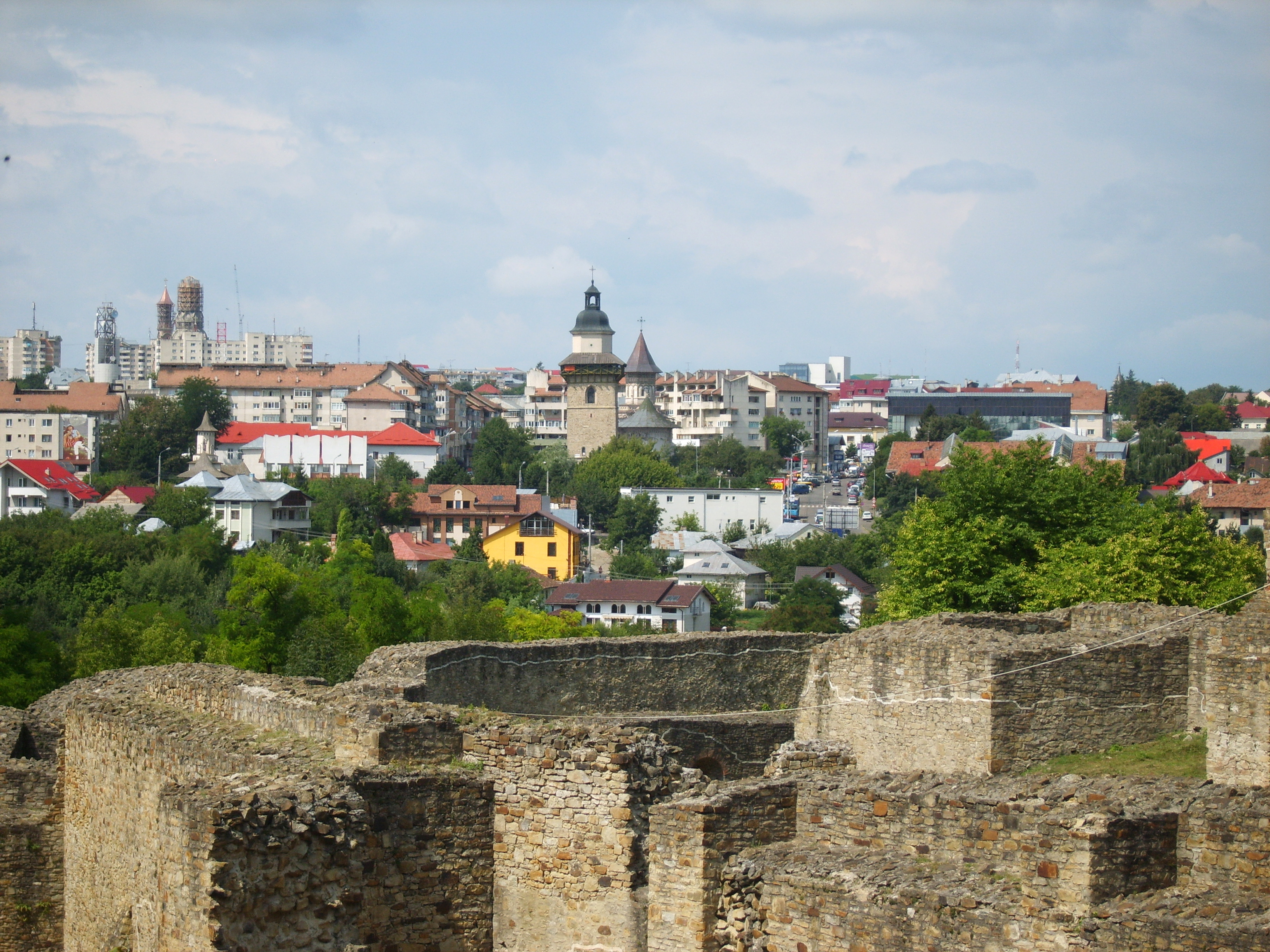 Seat Fortress of Suceava – walls on the west side and general view on the city center of Suceava.